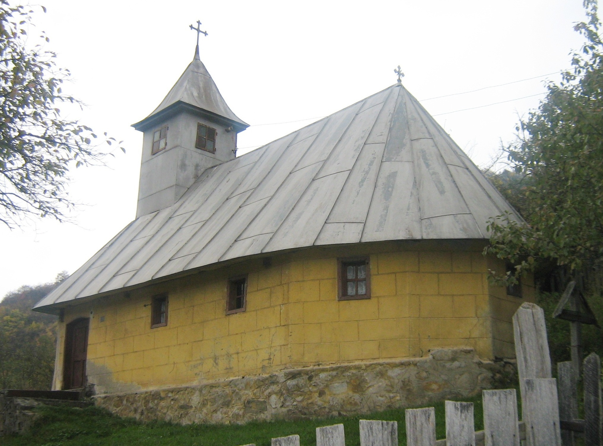 The wooden church in Arănieș, Huhedoara county, Romania